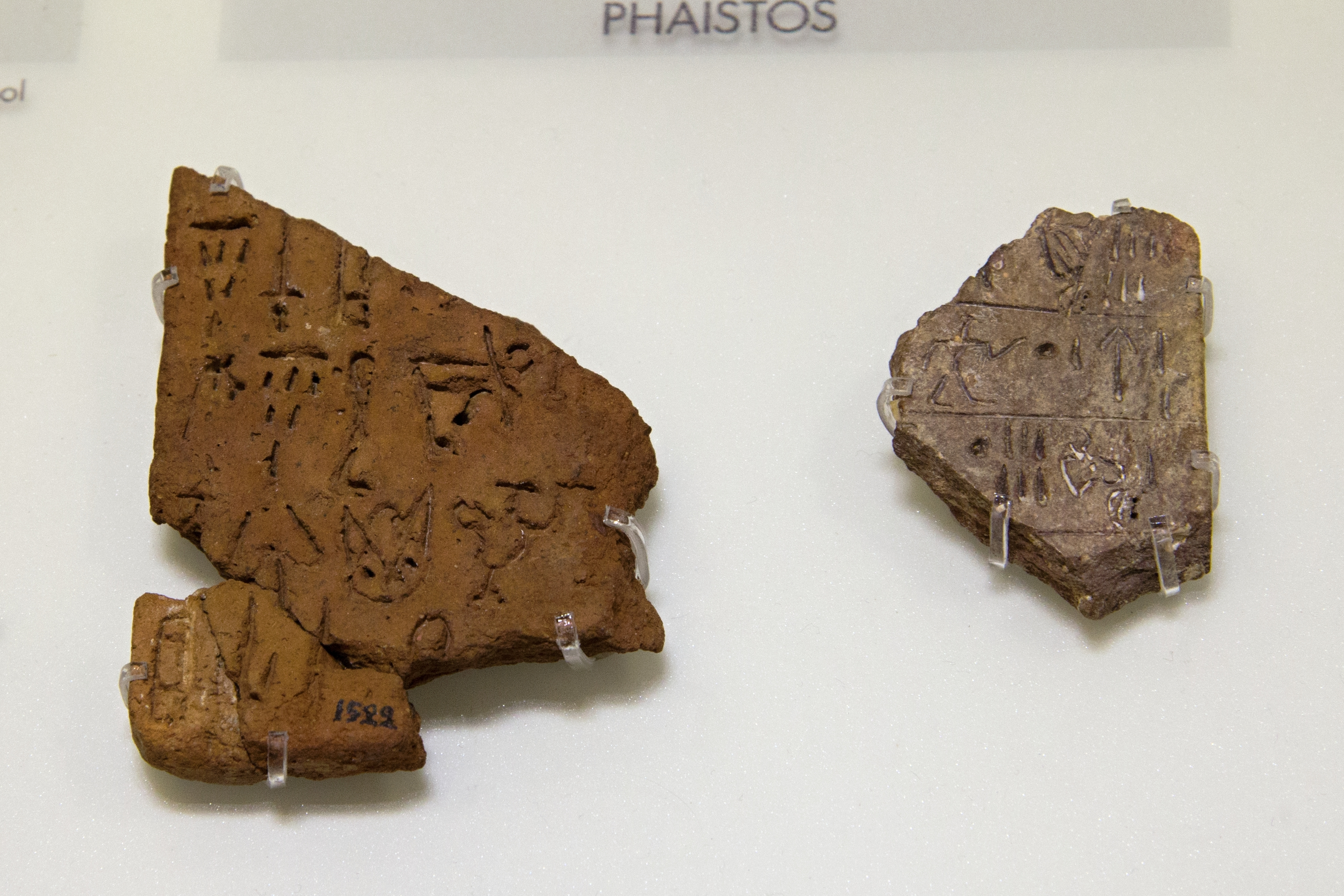 Minoan inscriptions in Linear A script. Phaistos, 1850-1450 BC. Archaeological Museum of Heraklion.